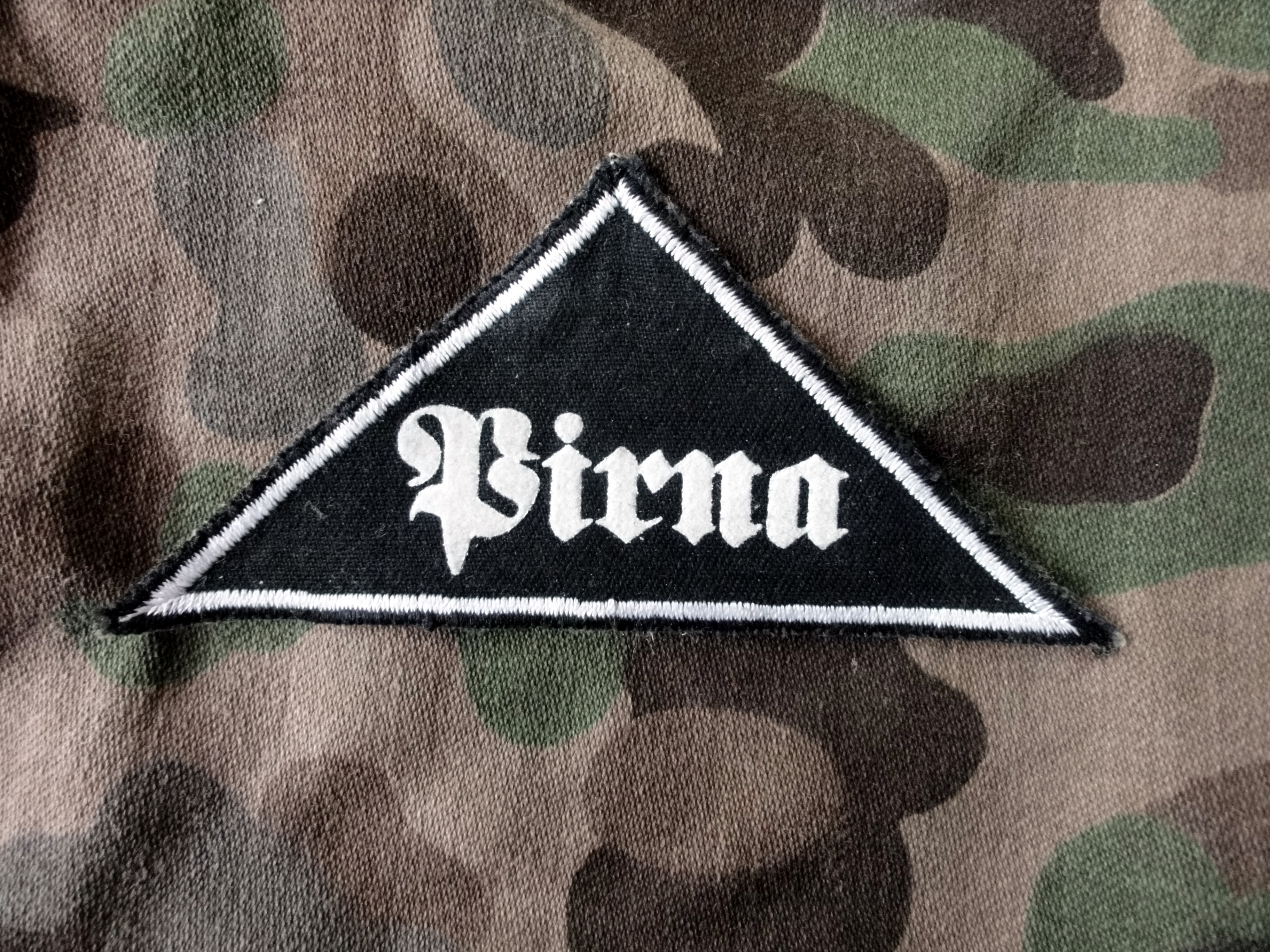 A patch from the Adolf Hitler Schule Pirna for Hitlerjugend members of the "Große Kreisstadt Pirna".